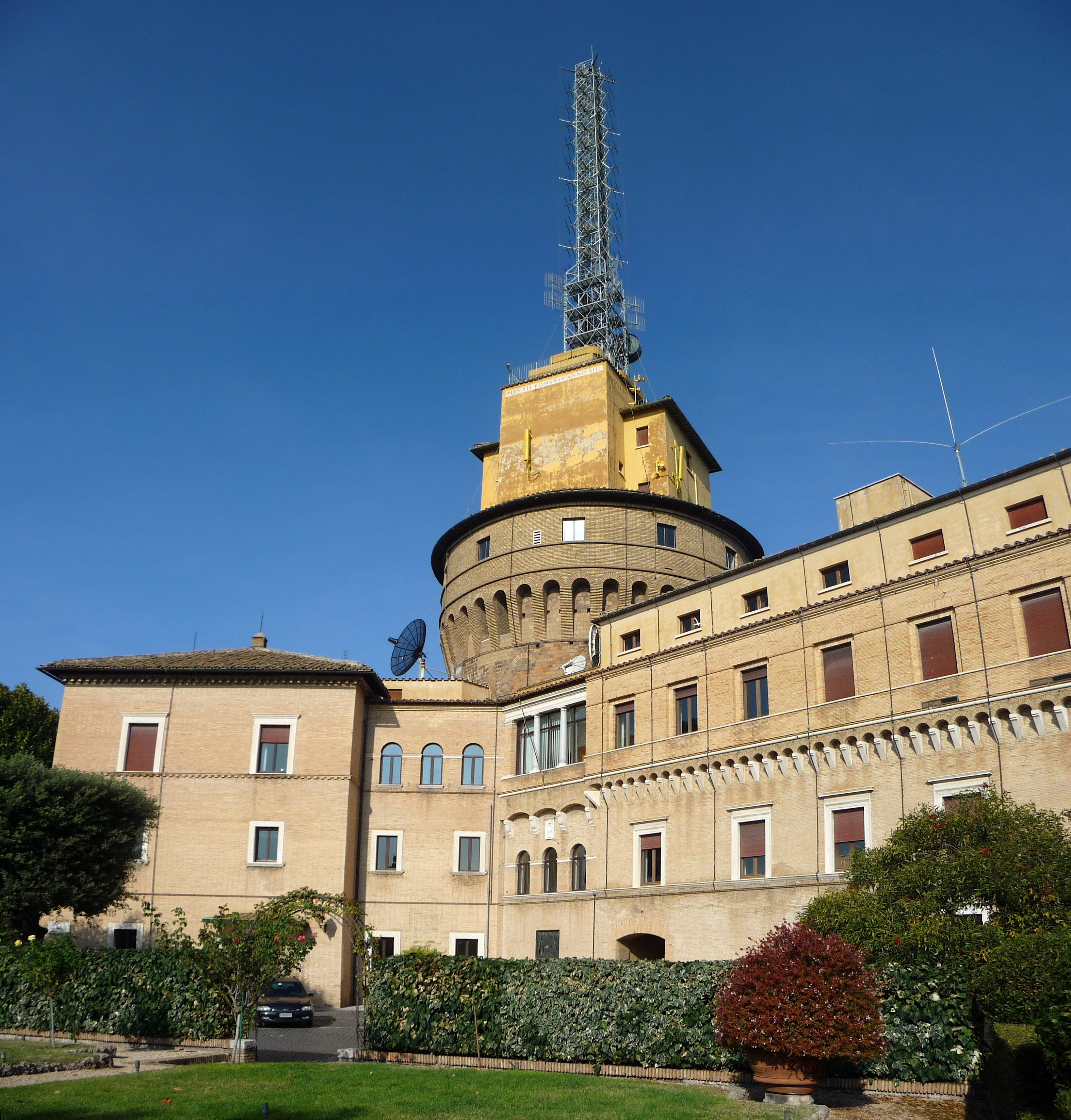 Directorate of the Vatican Radio (Vatican).